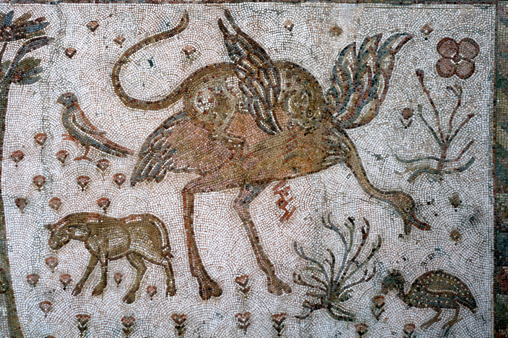 Roman era mosaic depicting a Leopard attacking an Ostrich. Exhibited on the outer wall of the National Museum, Damascus, Syria.